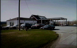 U.S. Inspection Station-Richford, Vermont.